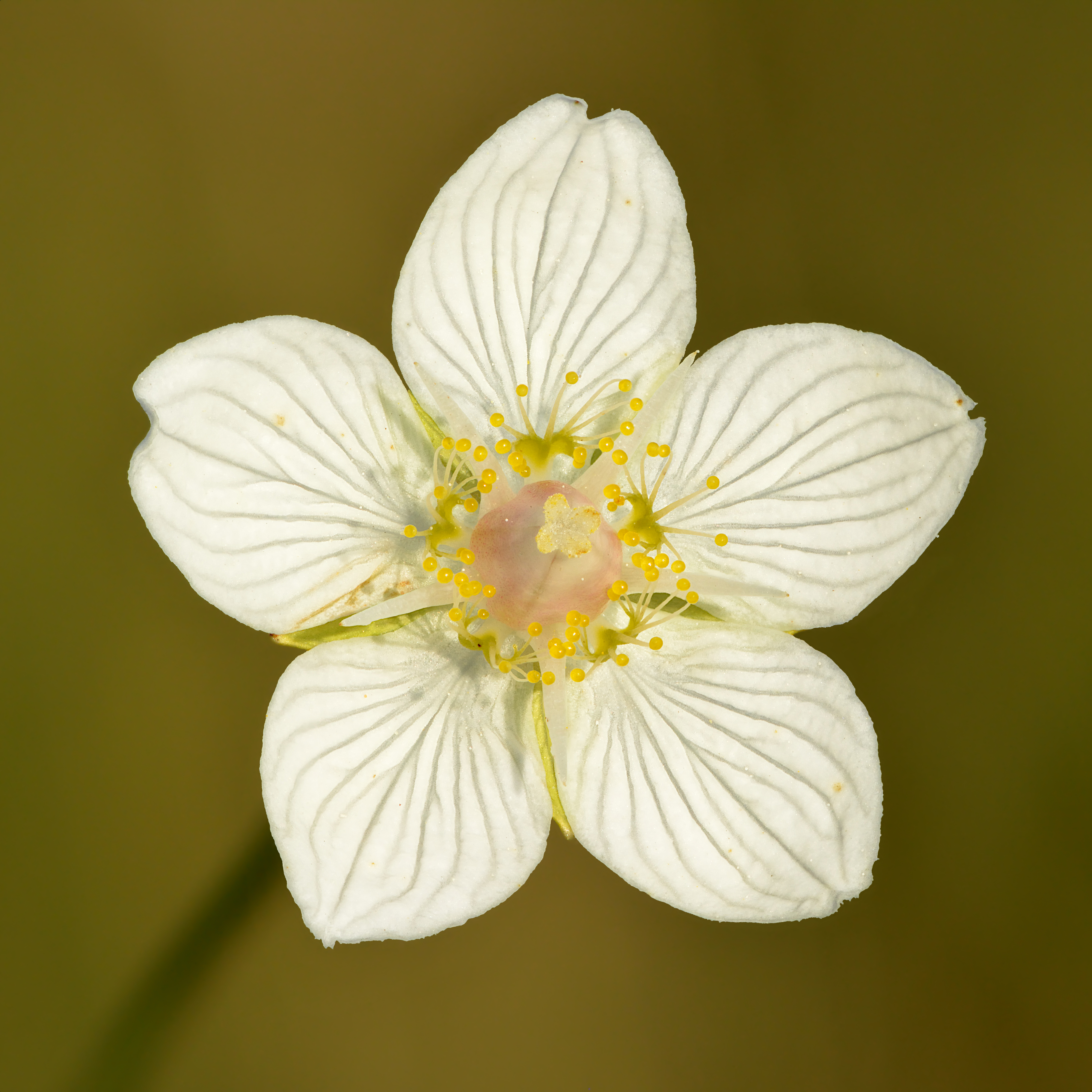 Marsh grass of Parnassus